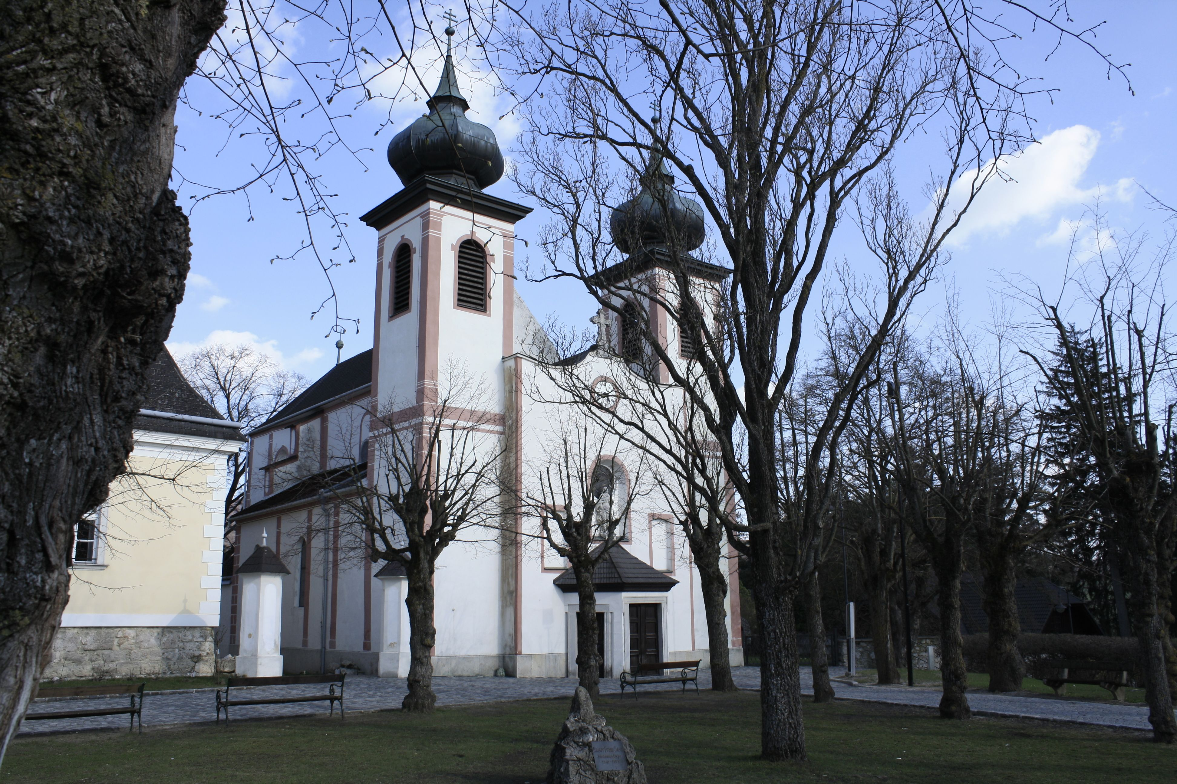 Church of Gaaden in Niederösterreich